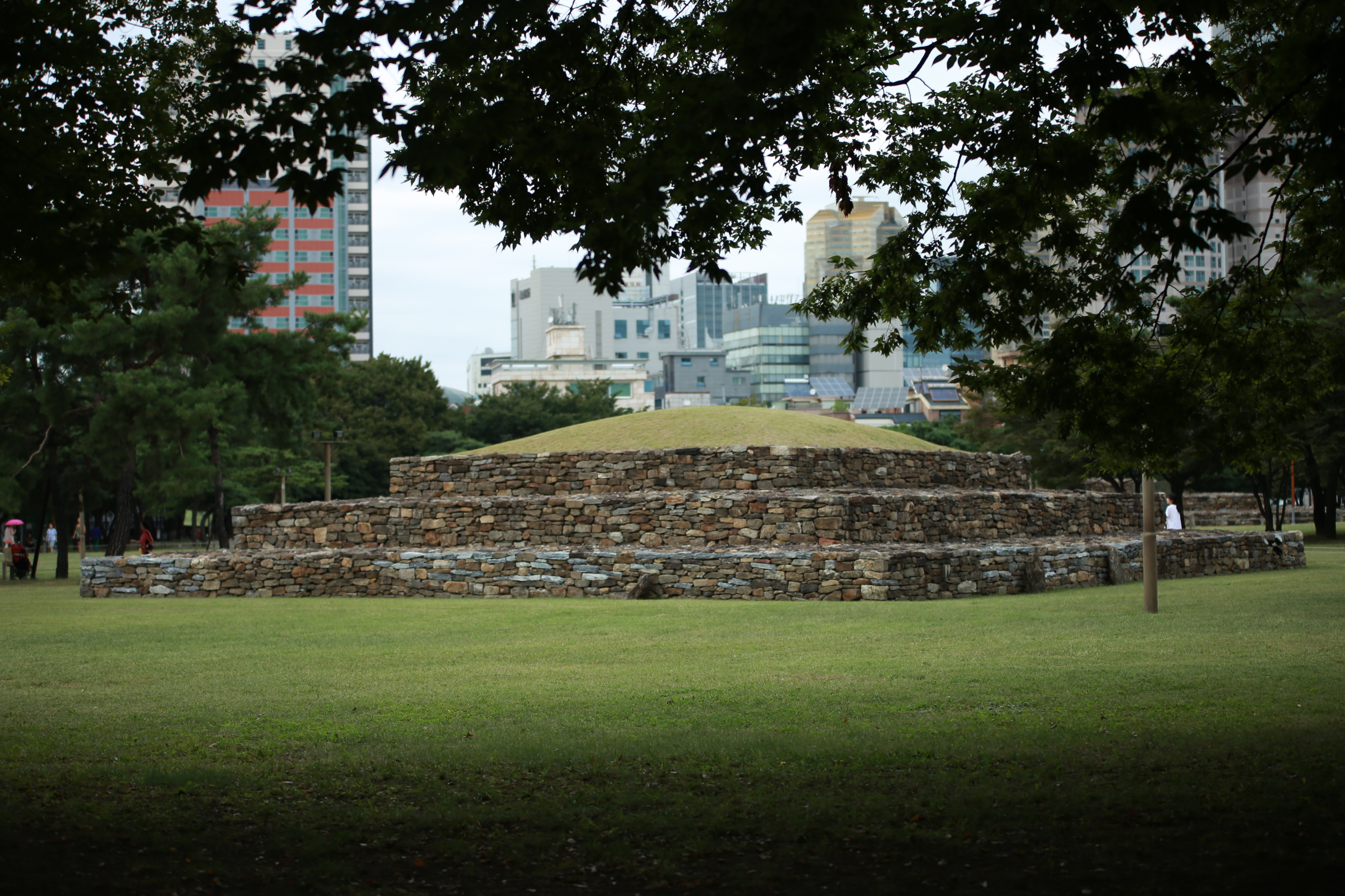 Seoul Seokchon-dong Ancient Tombs